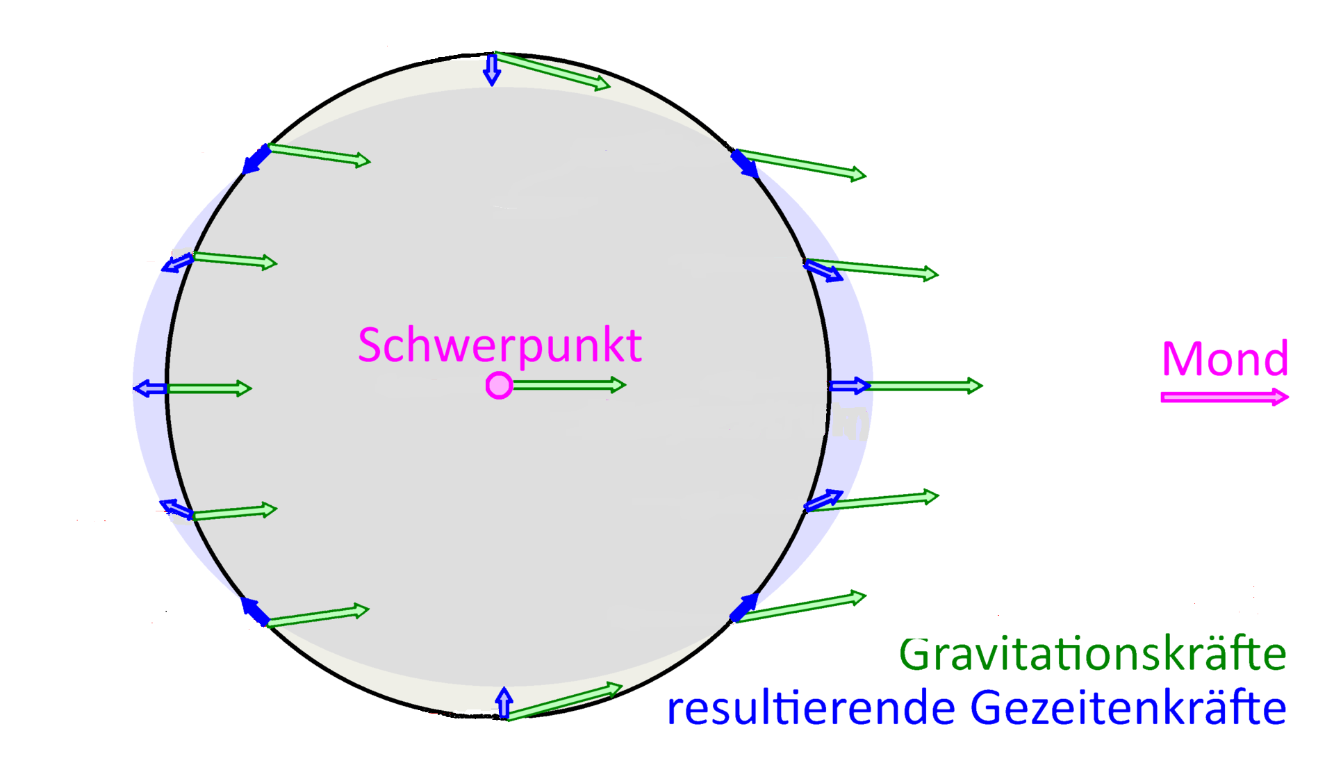 Tidal acceleration at Earth's surface